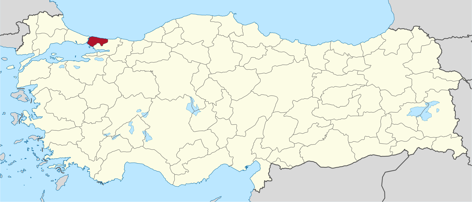 Location of İstanbul's first electoral district in Turkey